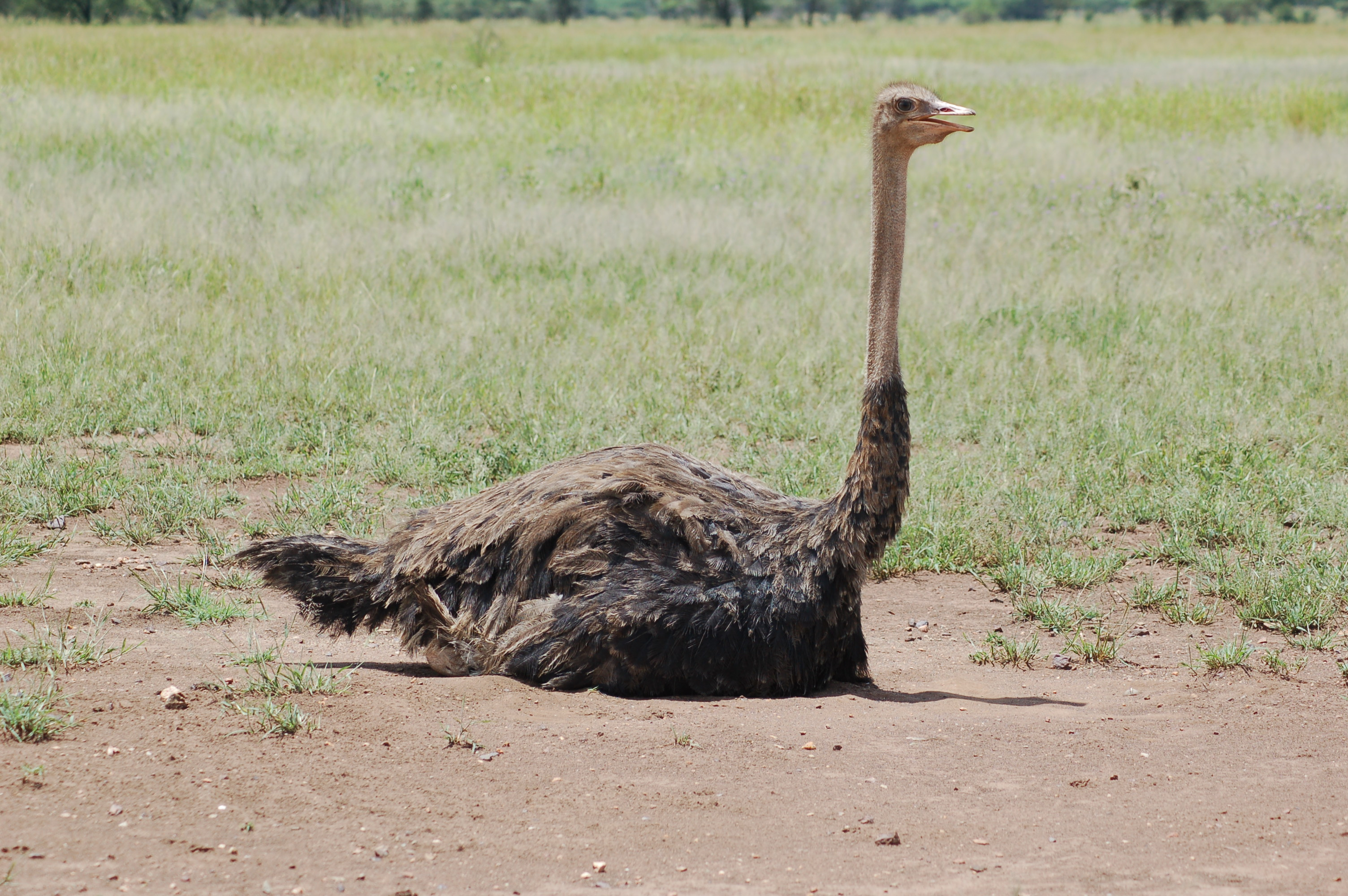 A female Ostrich incubating eggs in a shallow nest in the ground in Serengeti, Tanzania.